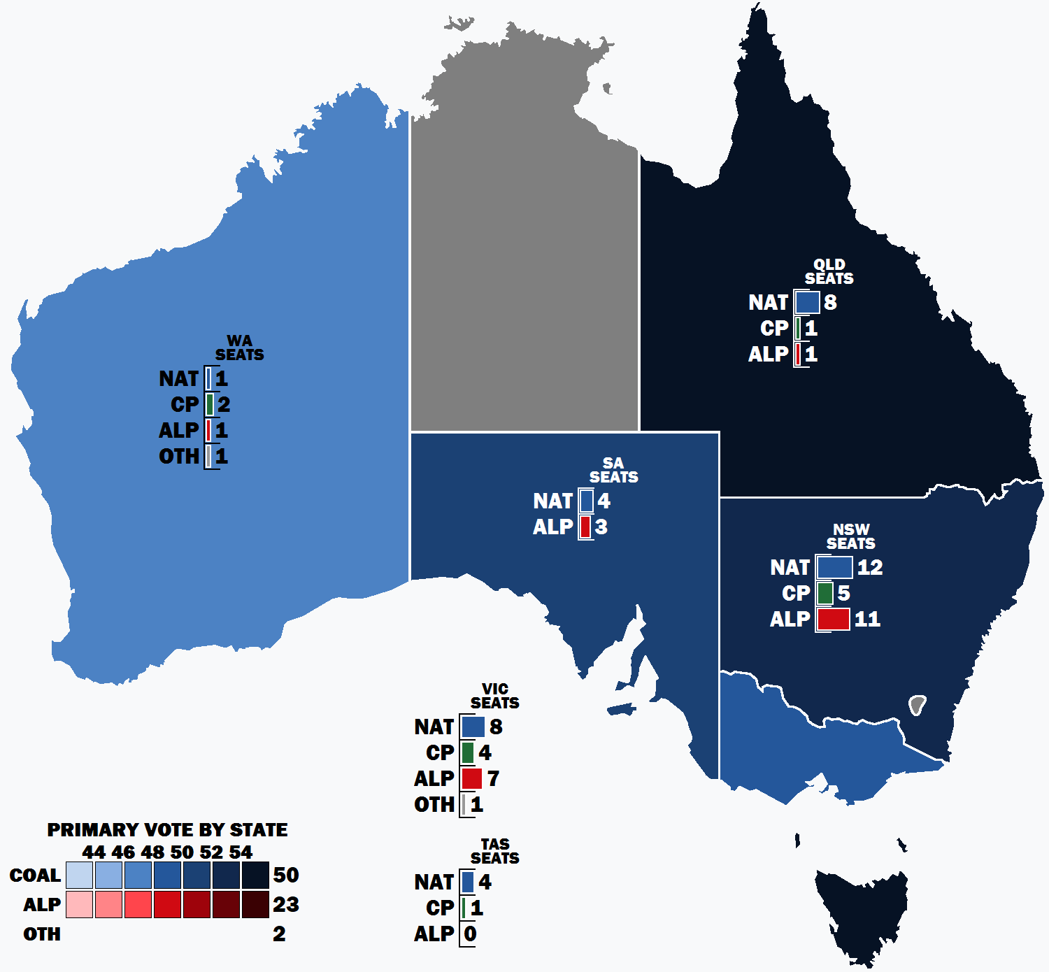 Result of the primary vote by state in the 1925 Australian federal election.